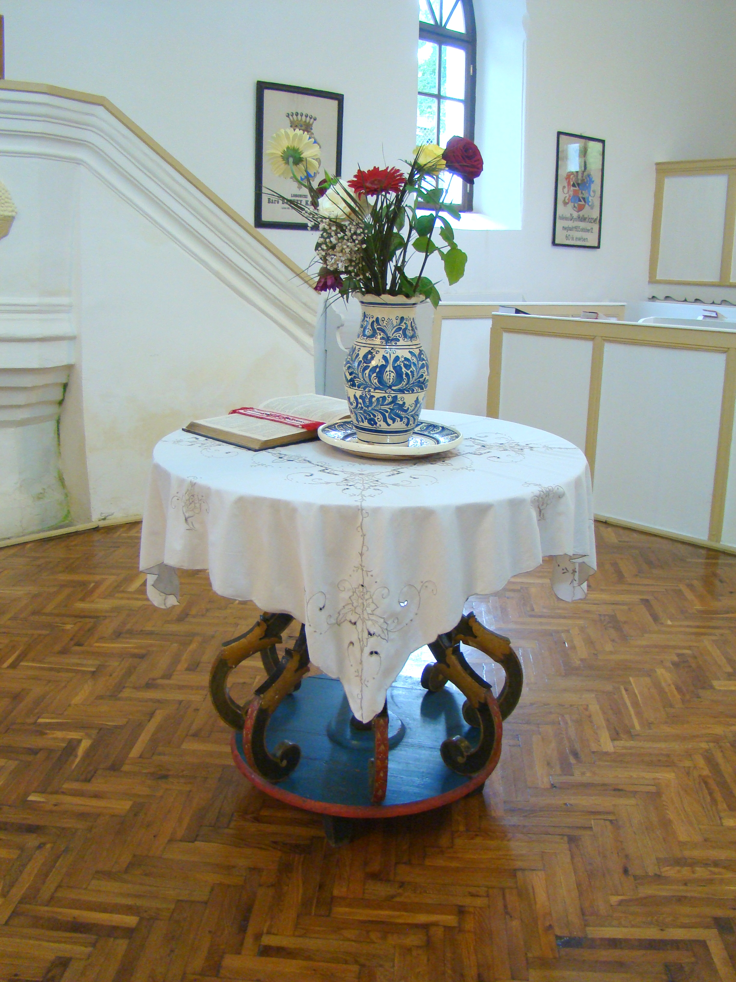 Reformed church in Hoghiz, Brașov county, Romania